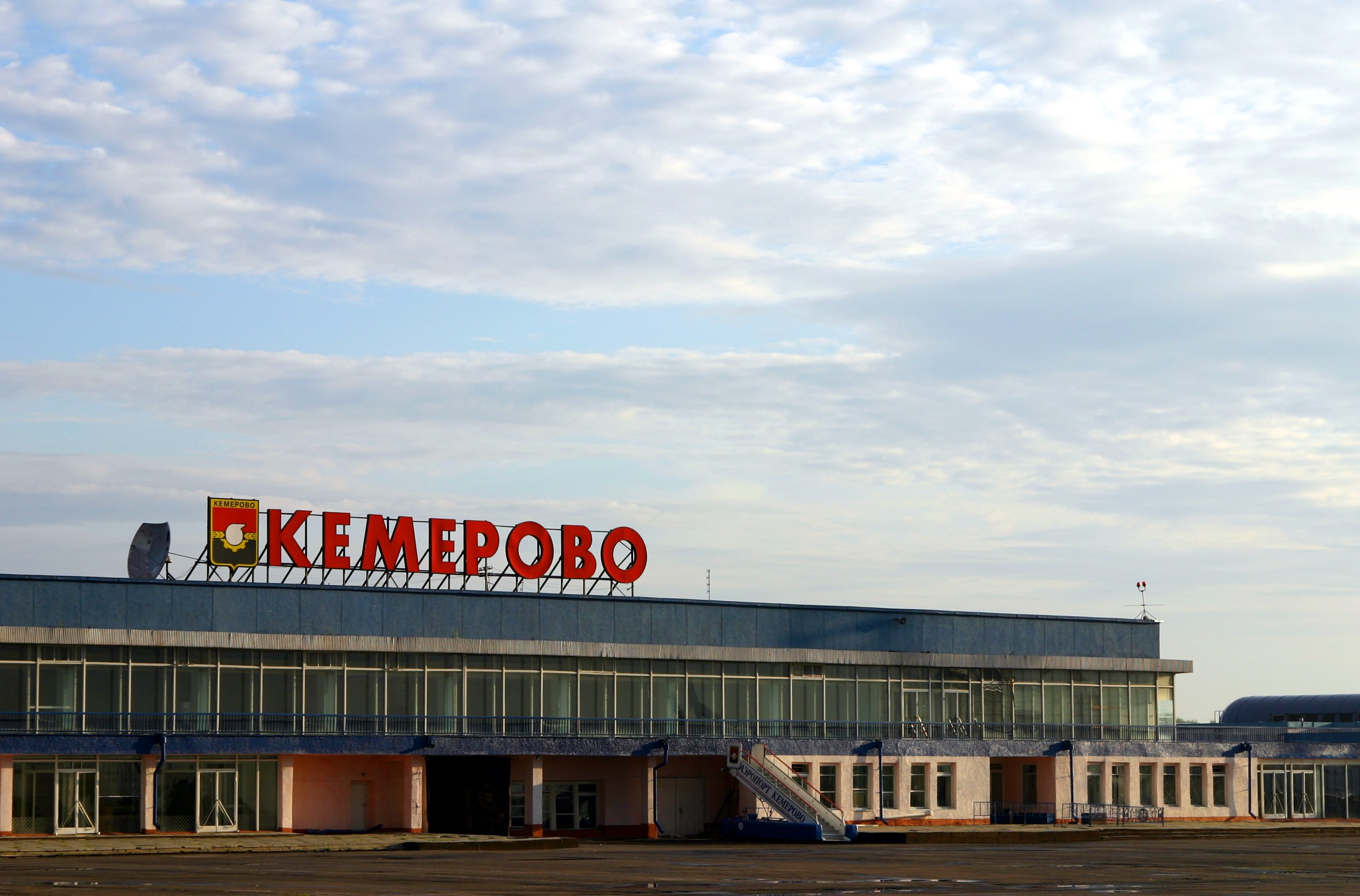 Kemerovo International Airport in 2006.